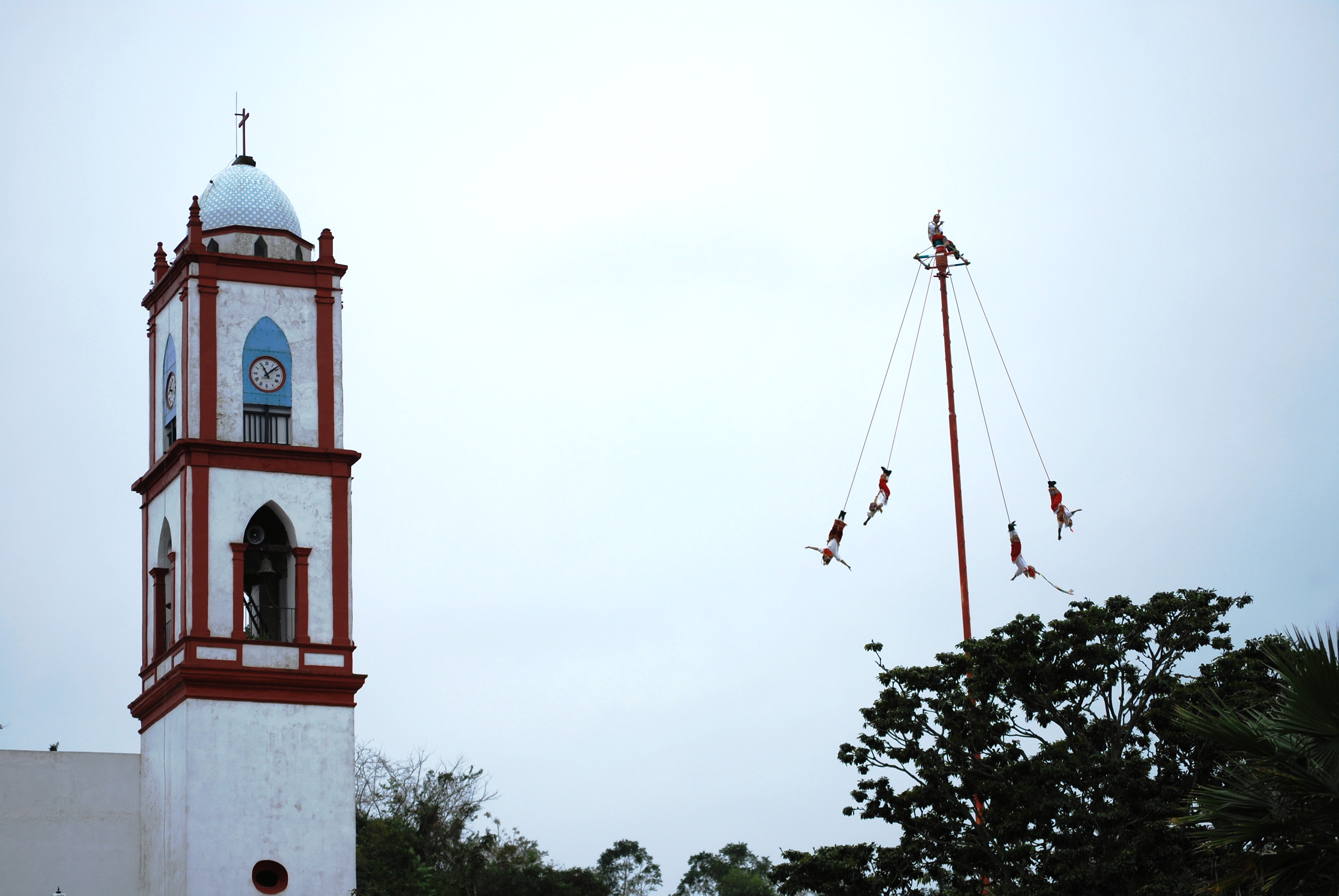 Voladores and the tower of the Church of the Assumption, Papantla, Veracruz